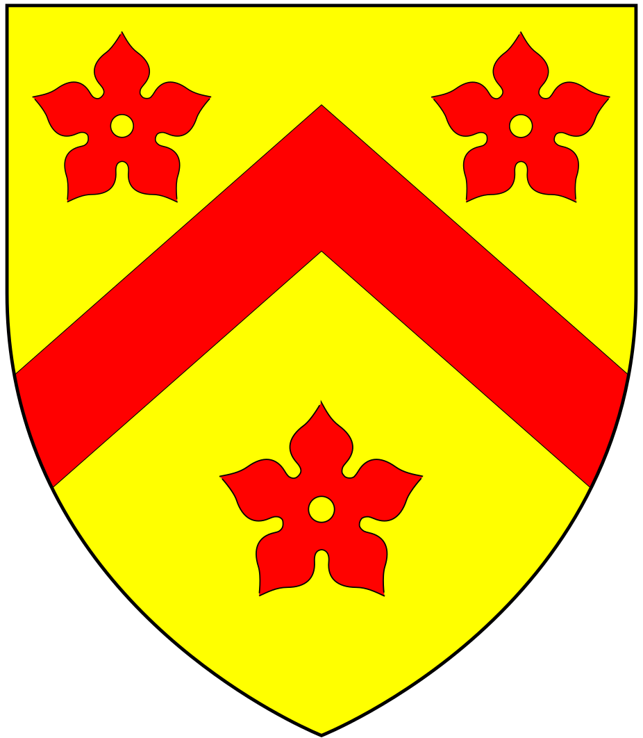 Arms of Chichele: Or, a chevron between three cinquefoils gules (Henry Chichele (c.1364-1443), Archbishop of Canterbury (1414-1443) and founder of All Souls College, Oxford).